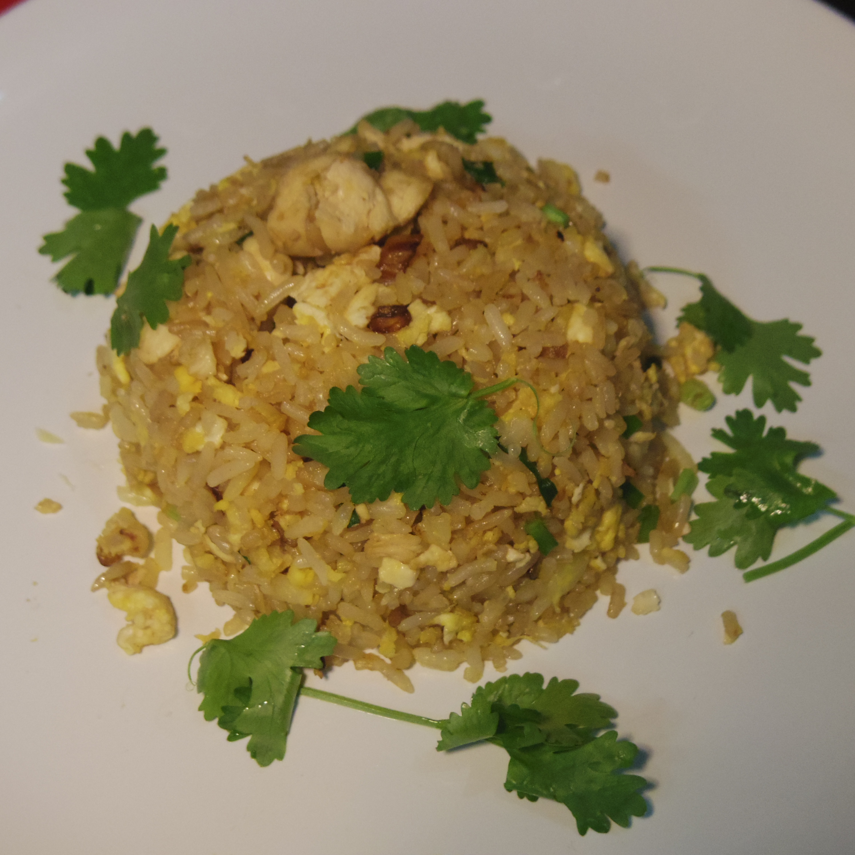 Fried rice with chicken